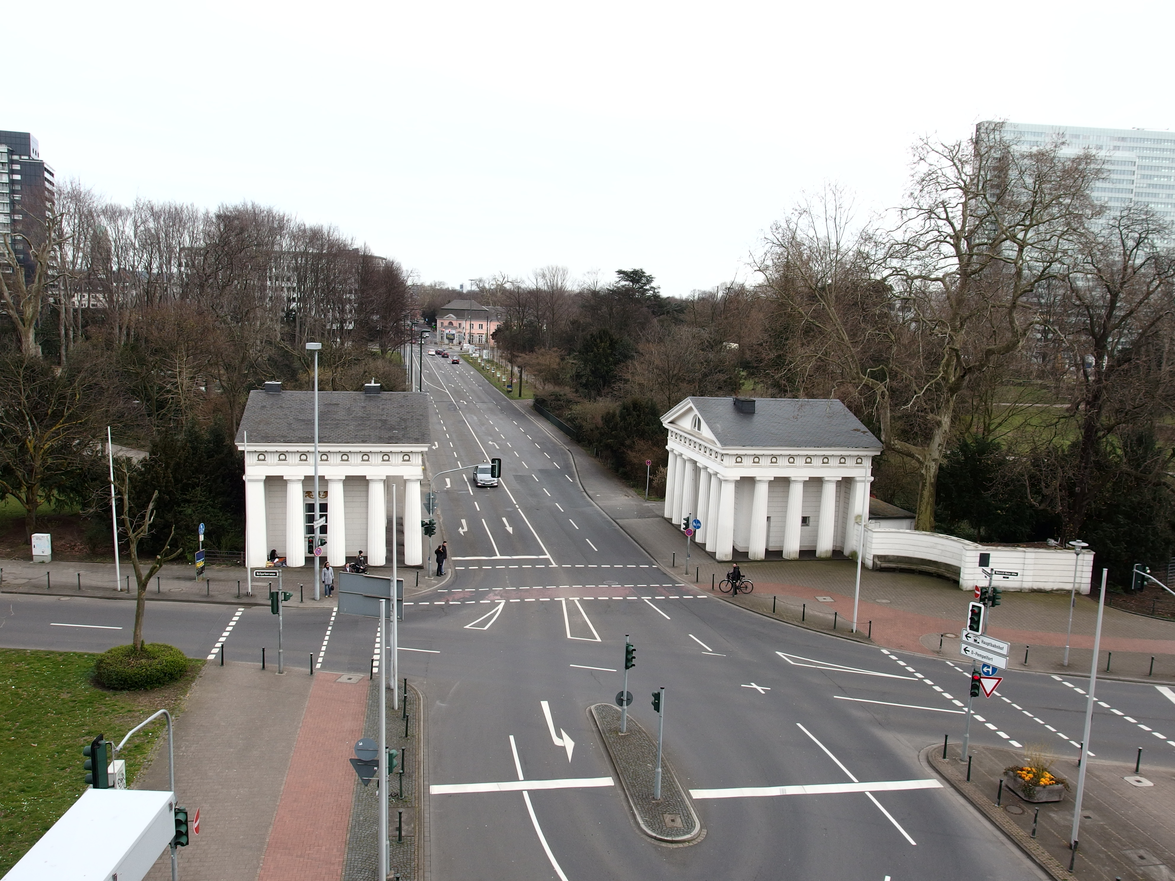 Ratinger Tor, Düsseldorf